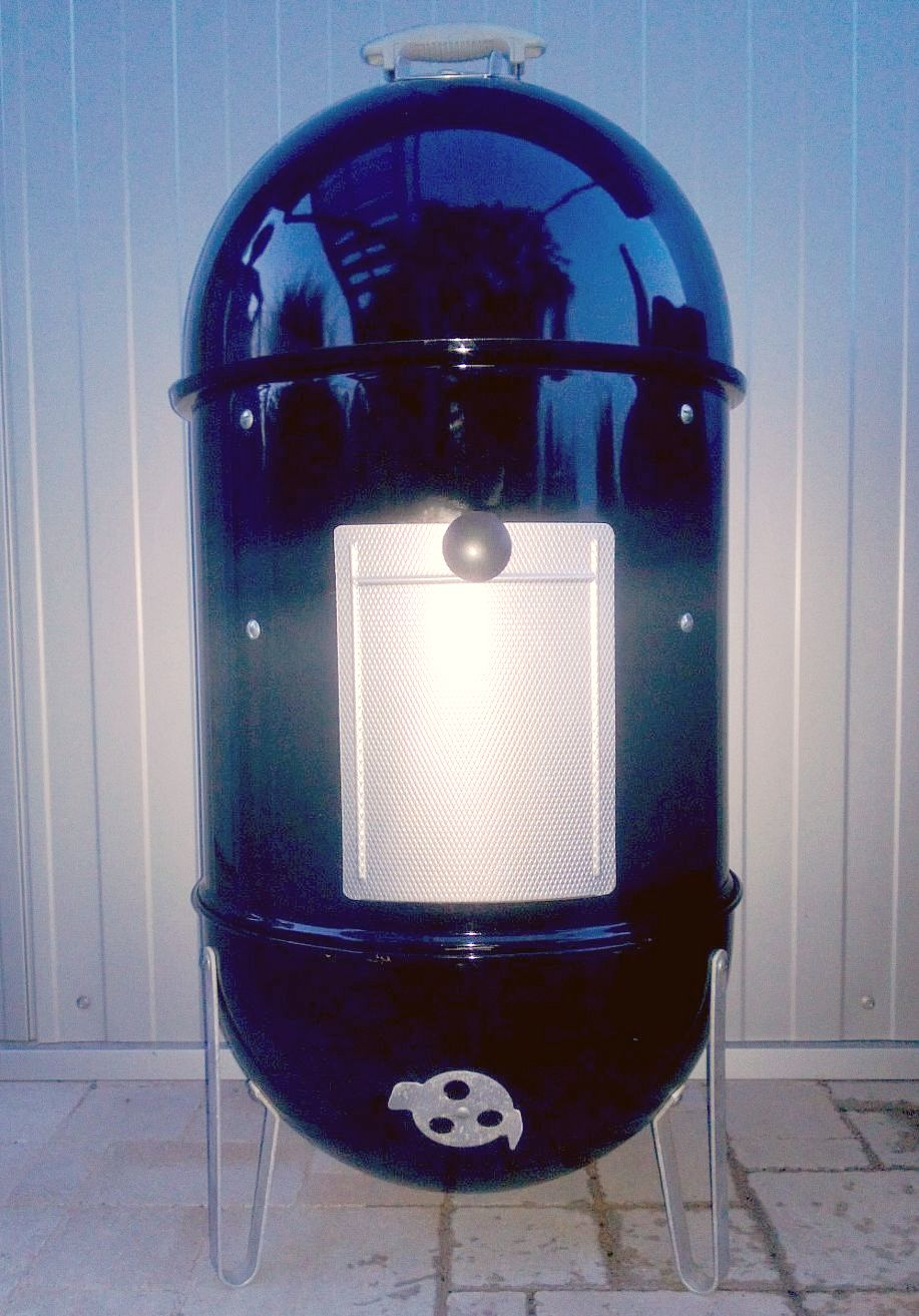 18 inch Bullet Smoker Weber Smokey Mountain Cooker